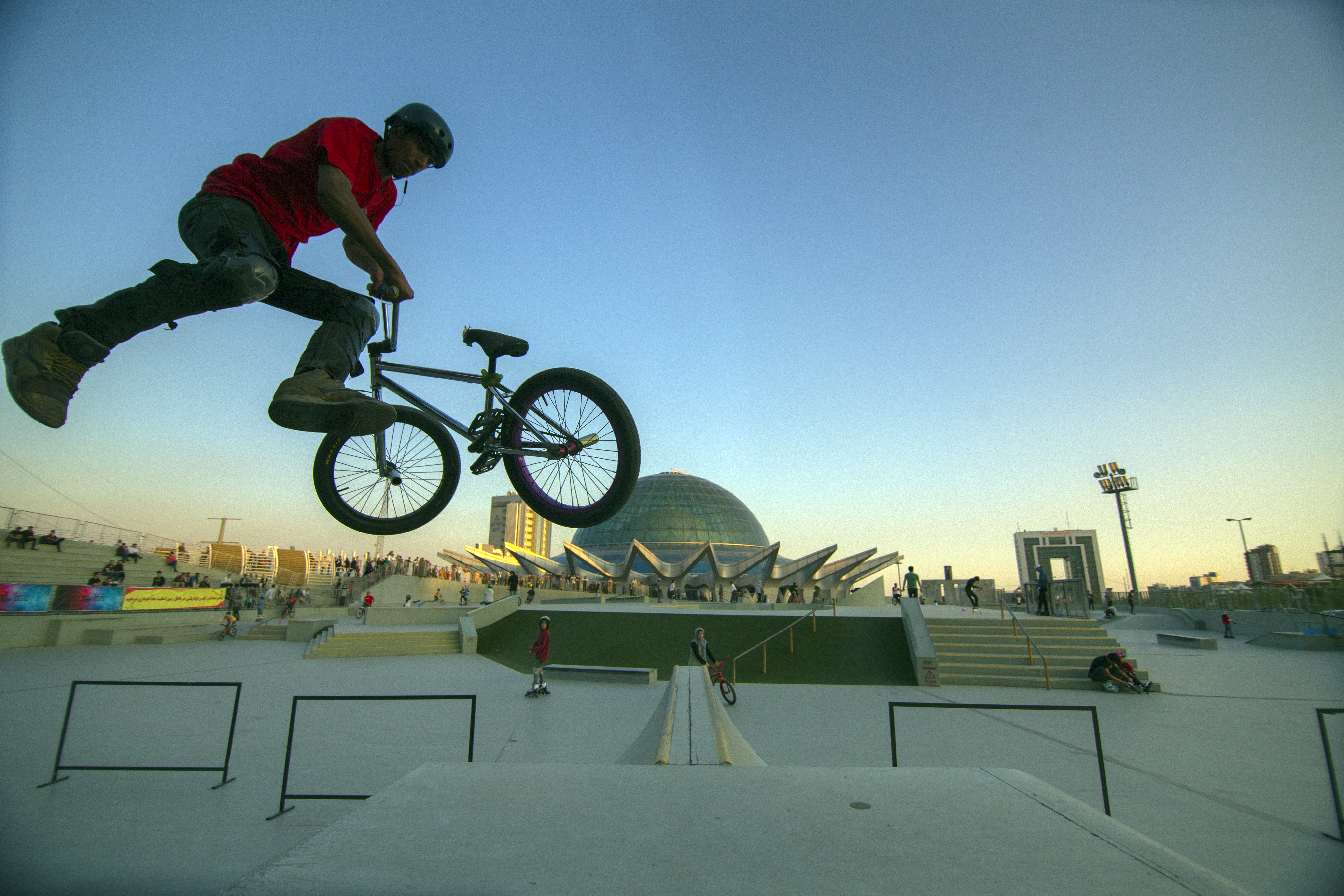 BMX, an abbreviation for bicycle motocross or bike motocross, is a cycle sport performed on BMX bikes, either in competitive BMX racing or freestyle BMX, or else in general on- or off-road recreation. photography place: Iran, Tehran BMX rider: Photographer: Mostafa Meraji